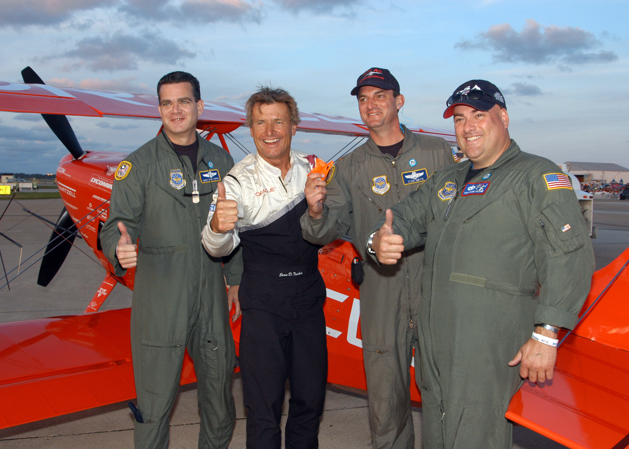 Naval Air Station Oceana, Va. (Sept. 24, 2004) – U.S. Air Force C-5 Galaxy aircrew Master Sgt. Rick Turpin, Tech. Sgt. Frank Falcone, and Maj. Star Smith, stop to take a photo with aerobatic pilot Sean Tucker at the 2004 "In Pursuit of Liberty," Naval Air Station Oceana Air Show. Twice during Tucker’s performance, he will fly the aircraft backwards, straight down, tail-first at more than 100 mph. The air show, held Sept. 24-26, showcased civilian and military aircraft from the Nation's armed forces, which provided many flight demonstrations and static displays. U.S. Navy Photo by Photographer’s Mate 3rd Class Jennifer M. Simonds (RELEASED)